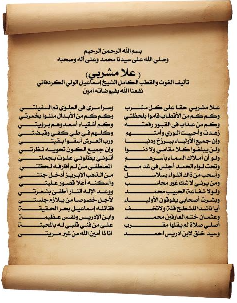 Sheikh Ismail Al wali poet